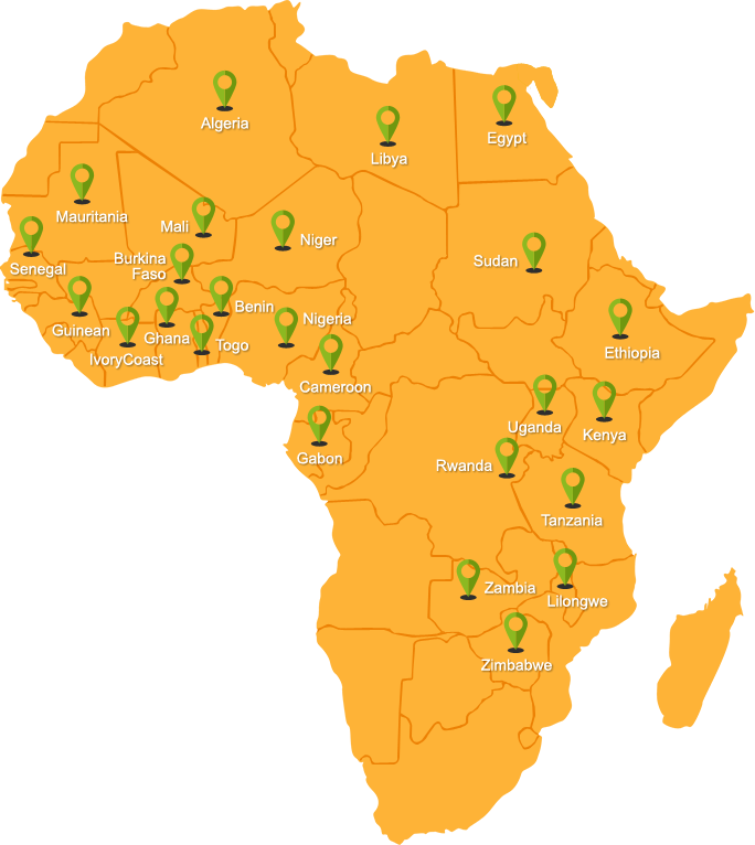 X-Tigi Offices Network in Africa